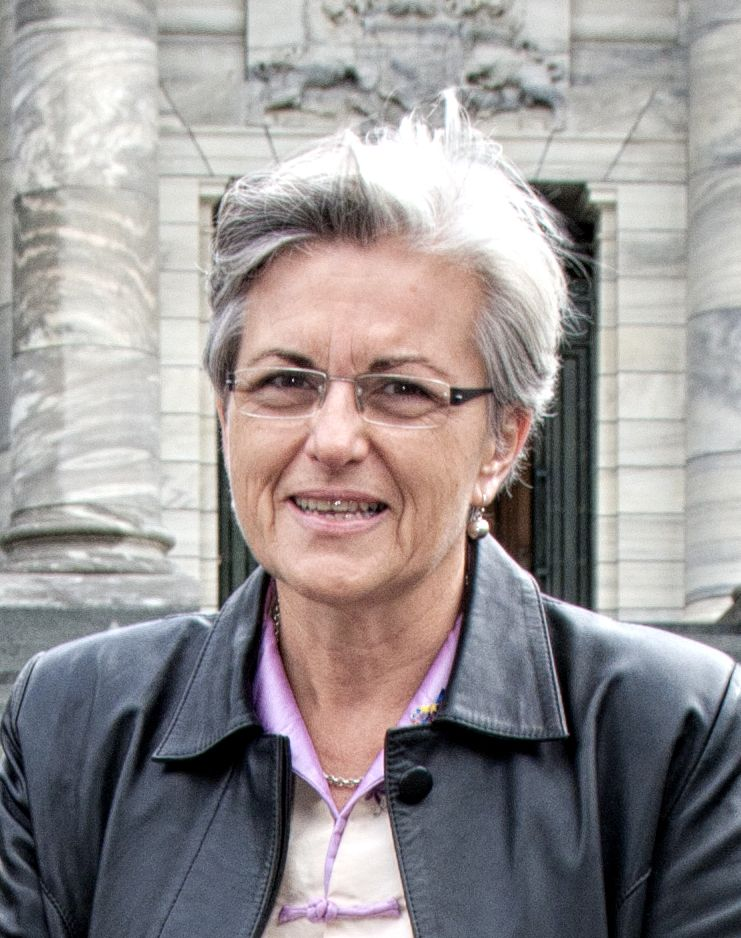 Member of Parliament Hon. Maryan Street (Labour) at the Lend Your Leg Action, Wellington, 4 April 2012